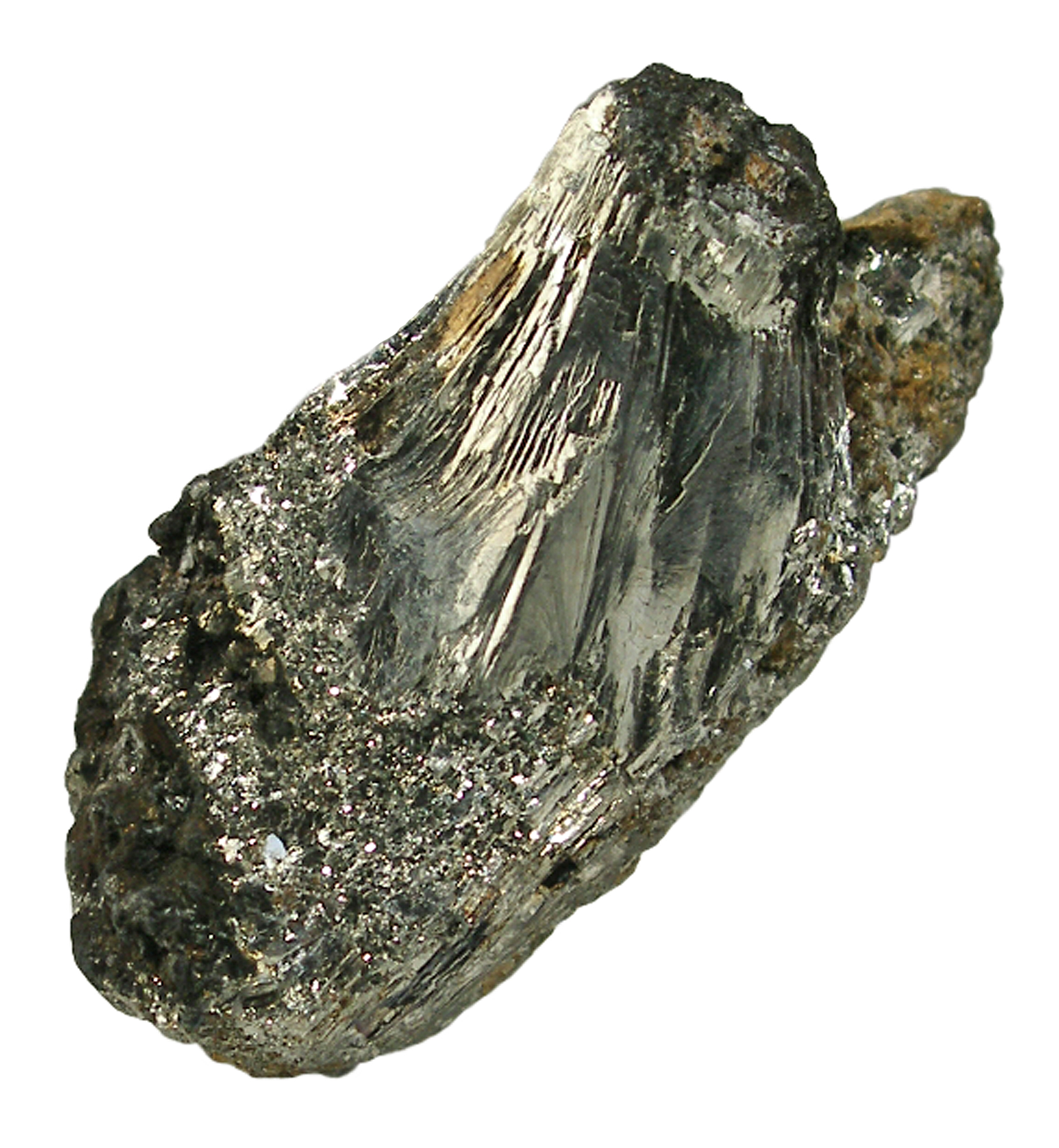 Rickardite Locality: Good Hope Mine, Vulcan District, Gunnison County, Colorado (Locality at ) A very metallic, bright specimen showing lathe-shaped crystals of tellurium admixed with sparkling rickardite in microcrystals around it. Rickardite is a SUPER RARE copper telluride, first discovered here in the early 1900s. This specimen, formerly #17583 in the AMNH collection, surely dates to those early days. It comes with an AMNH label showing it was a gift from an FJ Arkins (I do not know of him). Good Hope Mine, Vulcan District, Gunnison Co., Colorado is the TYPE LOCALE. Ex AMNH exchanged into the collection of dealer/collector Lawrence Conklin. 2.7 x 2.1 x 1.4 cm.